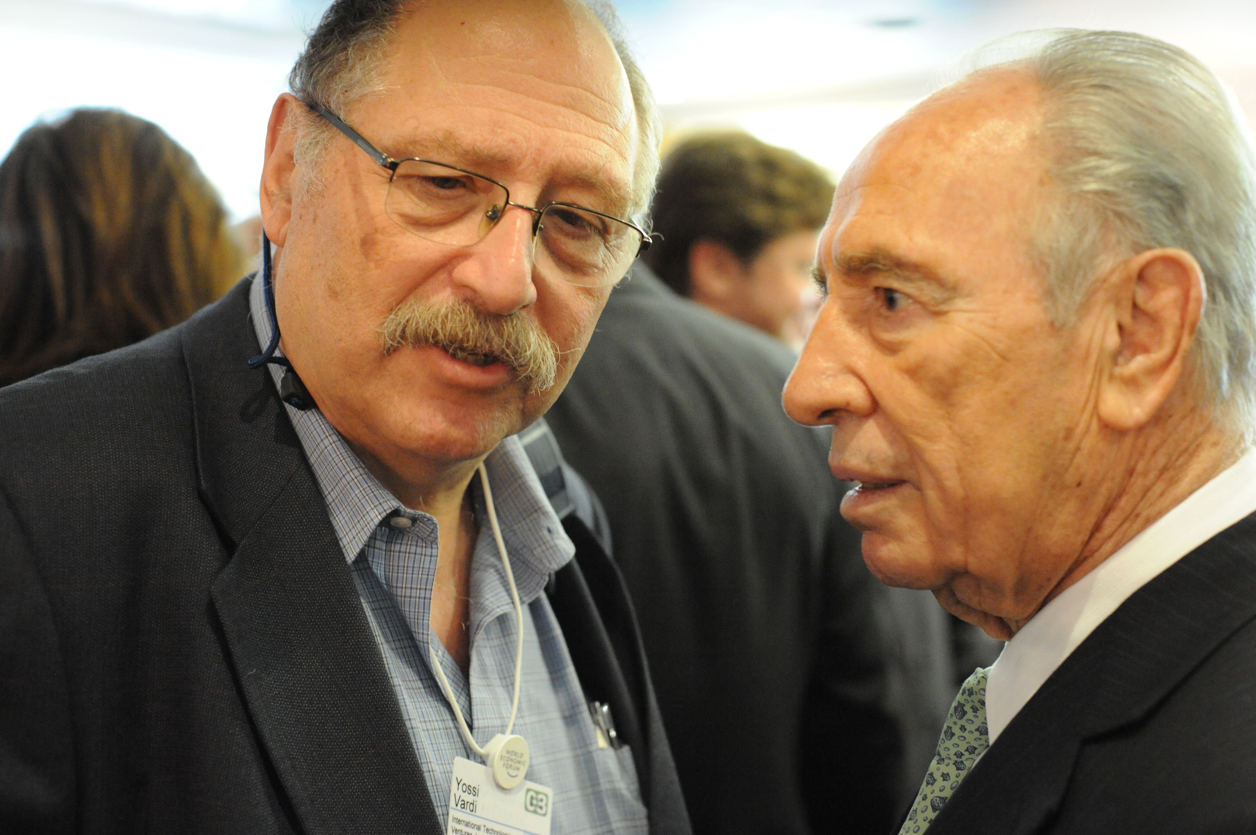 Shimon Peres, Israel's President, right, gets Yossi Vardi's ear